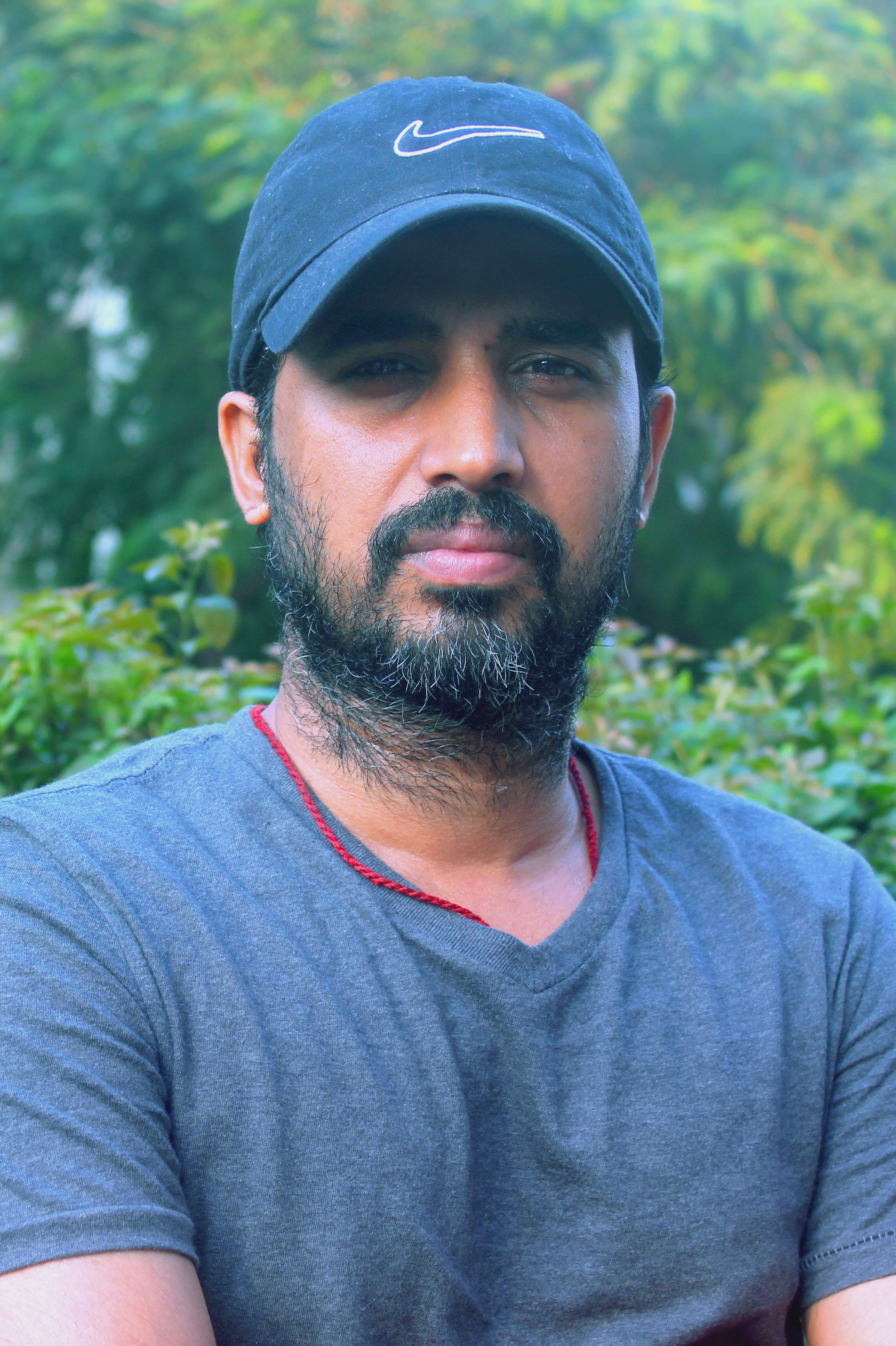 Screenwriter